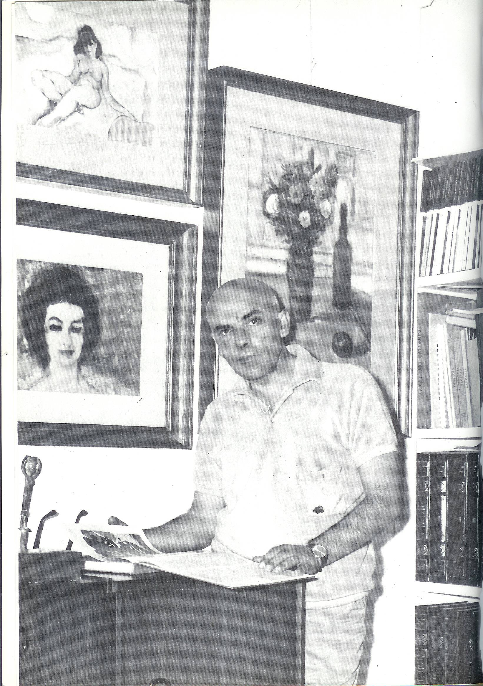 The painter Roberto Cenci, 1969.